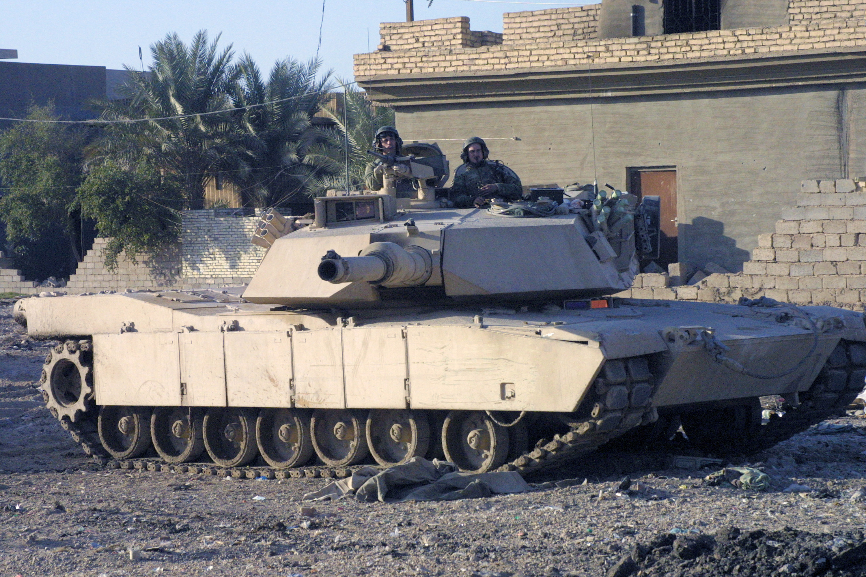 A M1A1 Abrams main battle tank